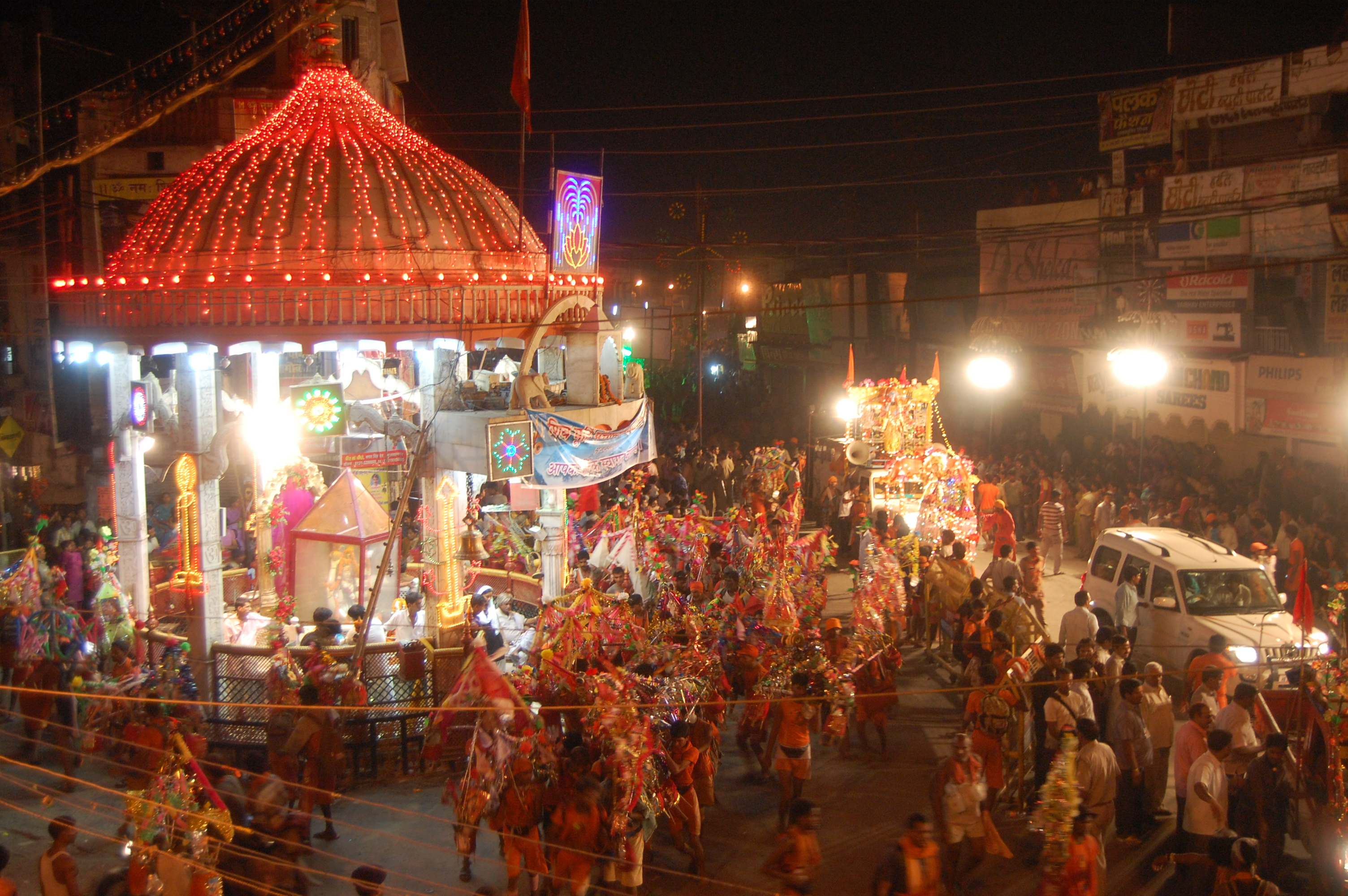 Shiv Chowk heart of Muzaffarnagar City